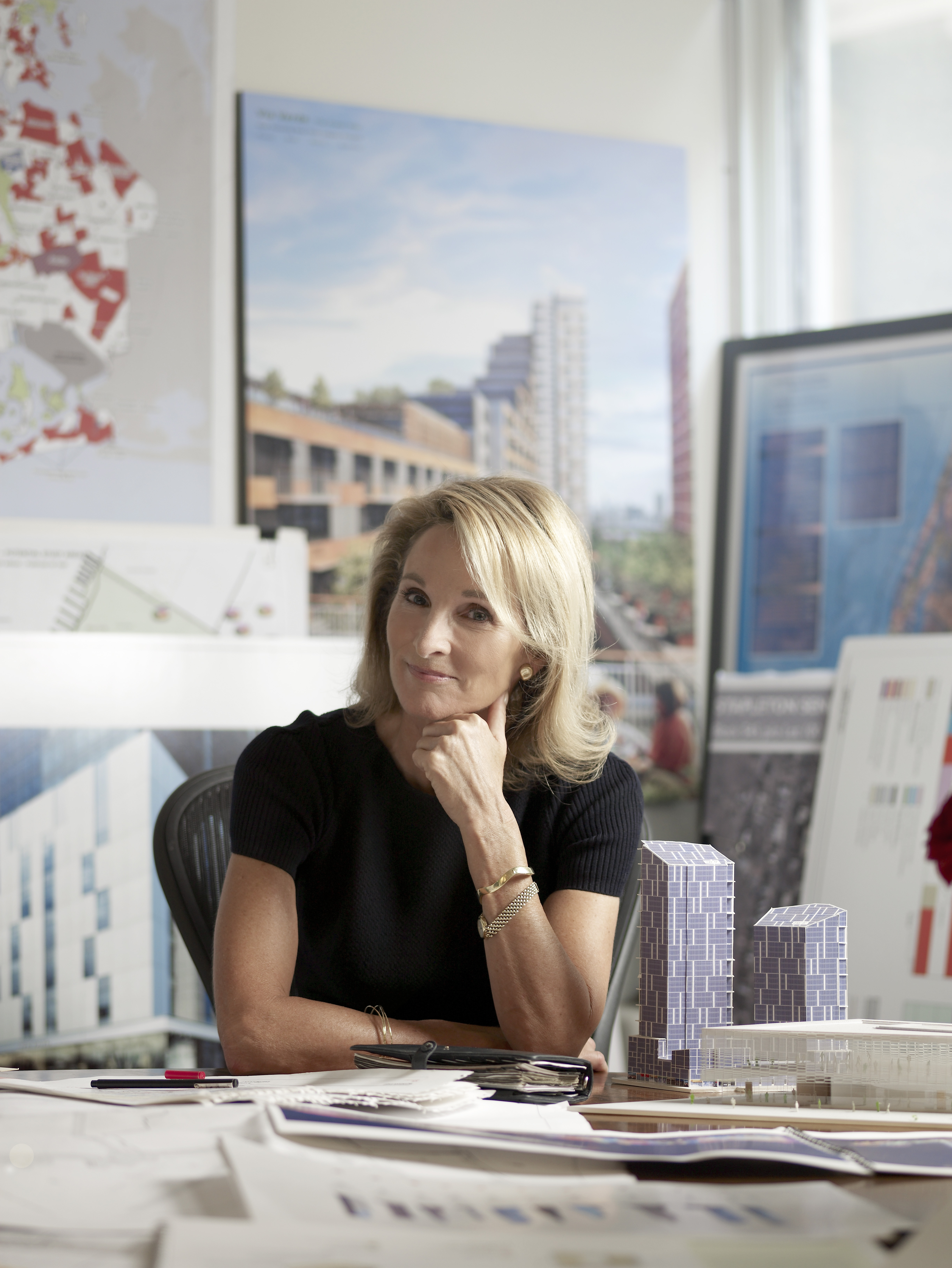 Amanda Burden, Urban Planning principal at Bloomberg Associates